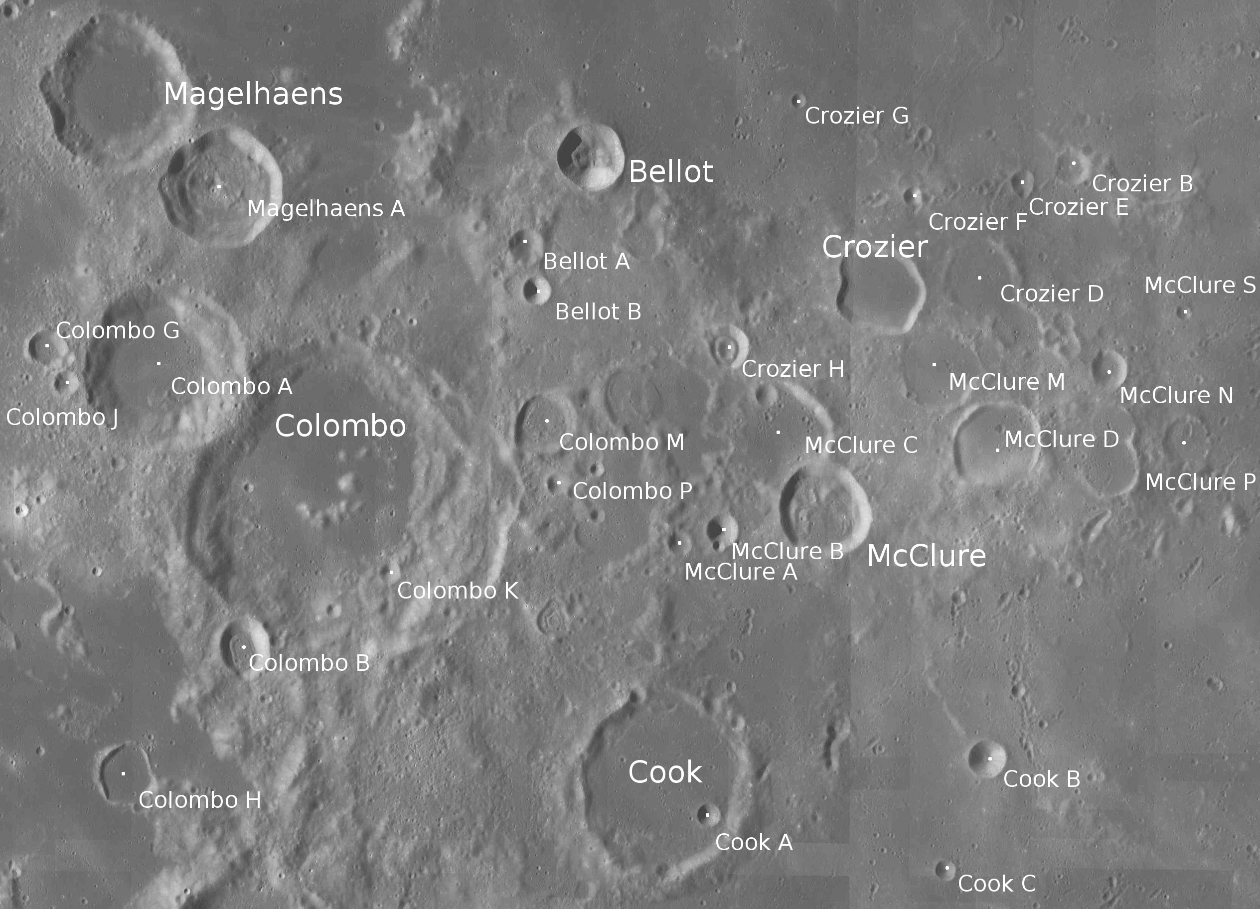 Craters Colombo, Magelhaens, Bellot, McClure, Crozier and Cook (detail of LRO - WAC global moon mosaic; Mercator projection)